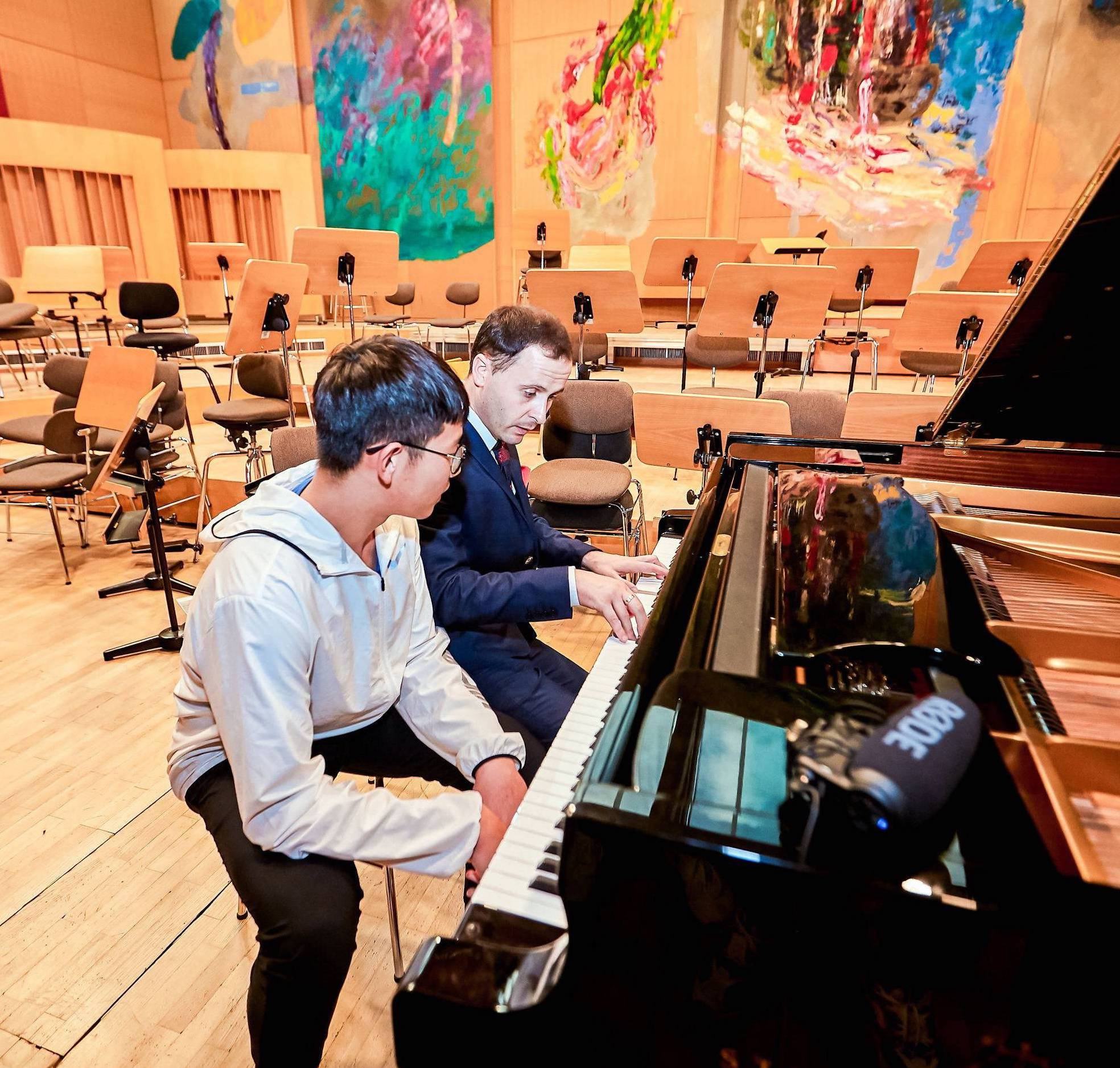 Giorgi Latso gives master-classes at Mozarteum Orchesterhaus Salzburg, Austria